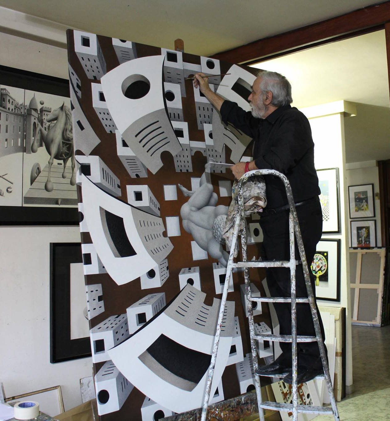 Photo of Pier Augusto Breccia in his studio in Rome 2014